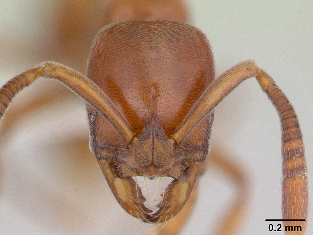 Head view of ant Asphinctopone silvestrii specimen casent0178221.